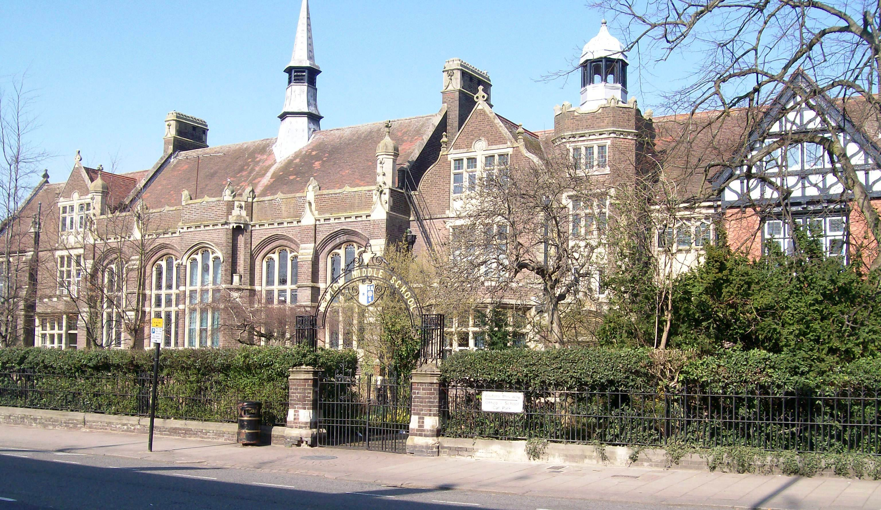 I took this -DearCatastropheWaitress 15:53, 2 May 2007 (UTC)